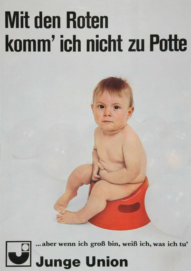 "I can't finish my business with the reds... But when I'm grown up, I'll know what to do." A promotional poster for the youth organization Young Union. Here, "the reds" is a reference to the Social Democratic Party of Germany.